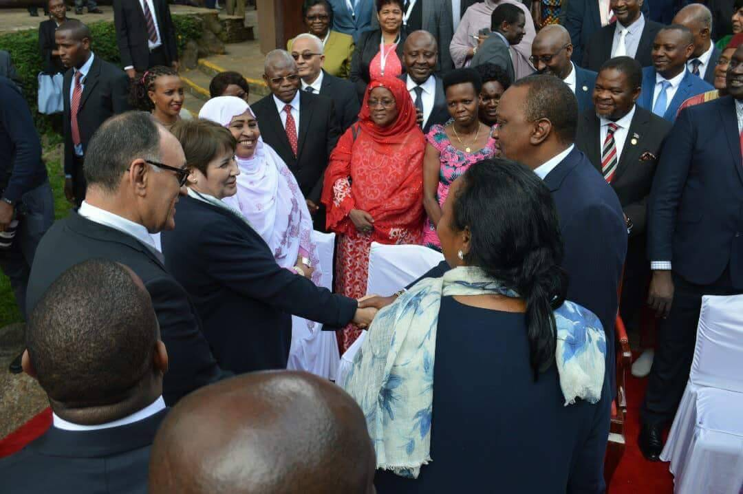 Algeria's Minister of National Education, Nouria Benghabrit, shaking hands of Kenya's President, Uhuru Kenyatta, at the occasion of the Pan-African High Level Conference for Education, held in Nairobi (Kenya) in April 2018. On the right of the Minister is Ambassador of Algeria in Nairobi, Elhamdi Salah. On the left of the President is the Cabinet Secretary for Education in Kenya, Amina Mohamed.